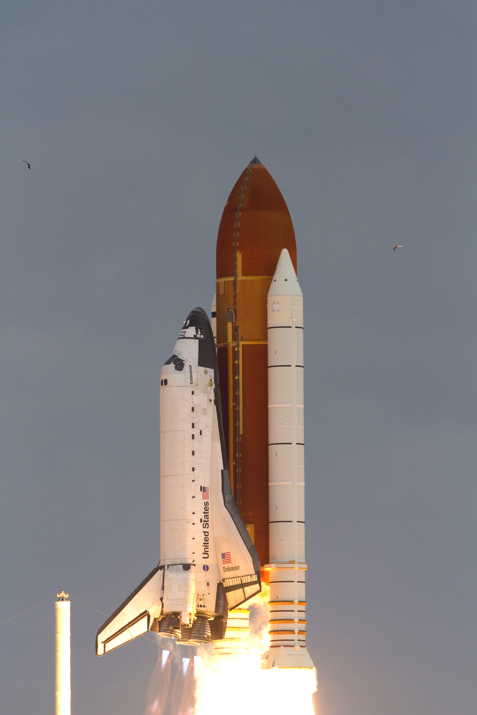 CAPE CANAVERAL, Fla. -- Rising on twin columns of fire, space shuttle Endeavour lifts off from Launch Pad 39A at NASA's Kennedy Space Center in Florida beginning its final flight, the STS-134 mission, to the International Space Station. Launch was on time at 8:56 a.m. EDT on May 16. STS-134 and its six-member crew will deliver the Alpha Magnetic Spectrometer-2 (AMS), Express Logistics Carrier-3, a high-pressure gas tank and additional spare parts for the Dextre robotic helper to the space station. Endeavour's first launch attempt on April 29 was scrubbed because of an issue associated with a faulty power distribution box called the aft load control assembly-2 (ALCA-2).